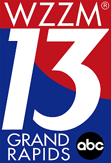 Former station logo for WZZM